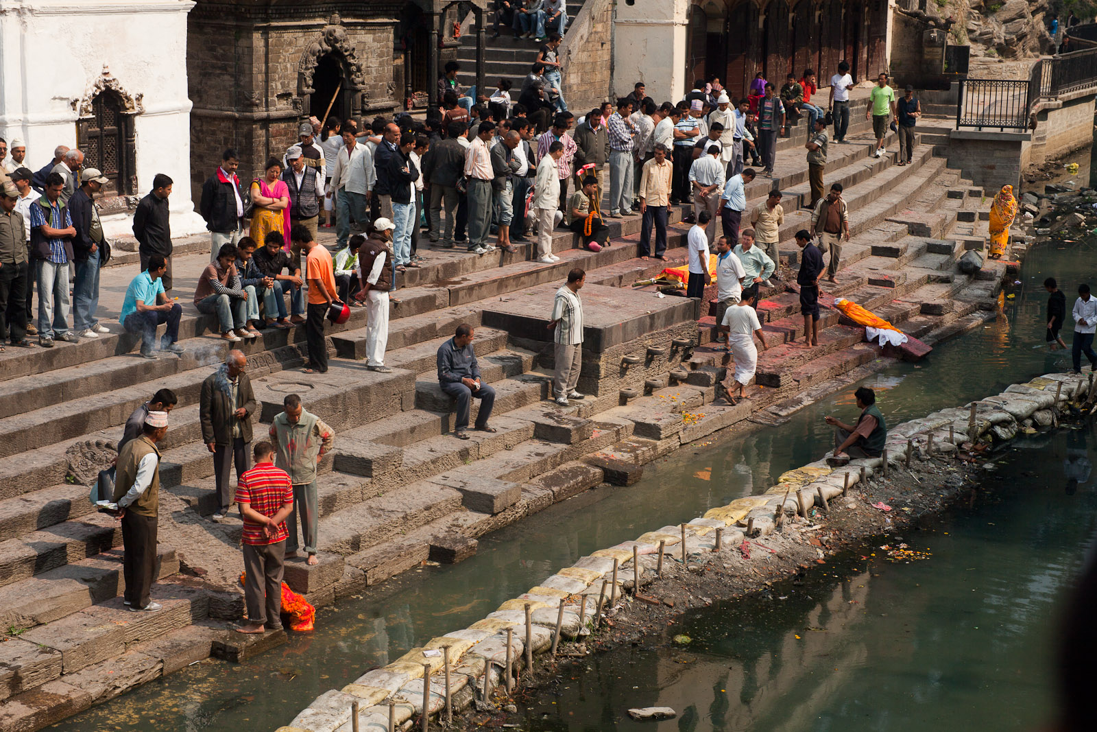 Pashupatinath - Bagmati River